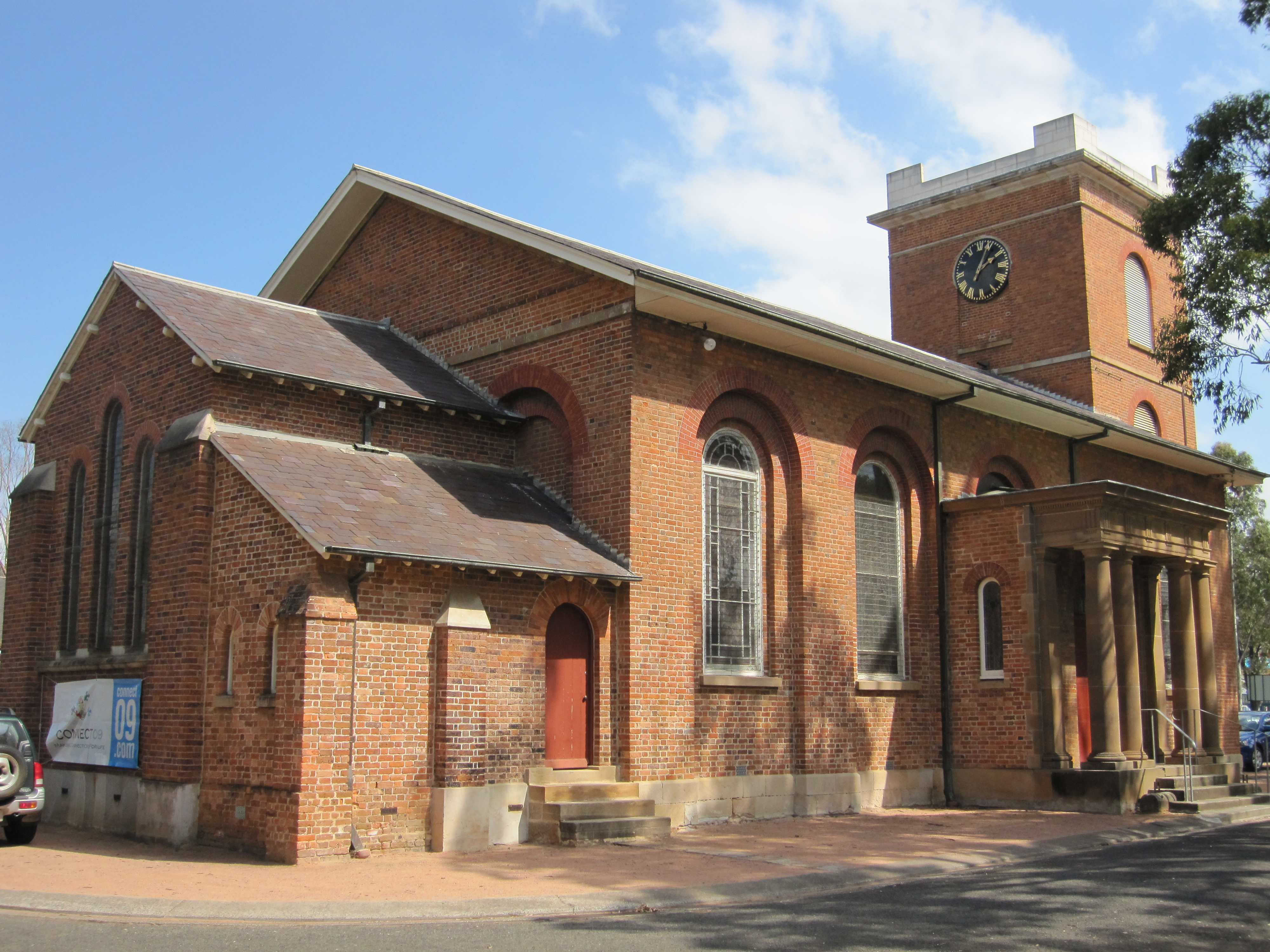 St Lukes Anglican Church, Liverpool, Sydney